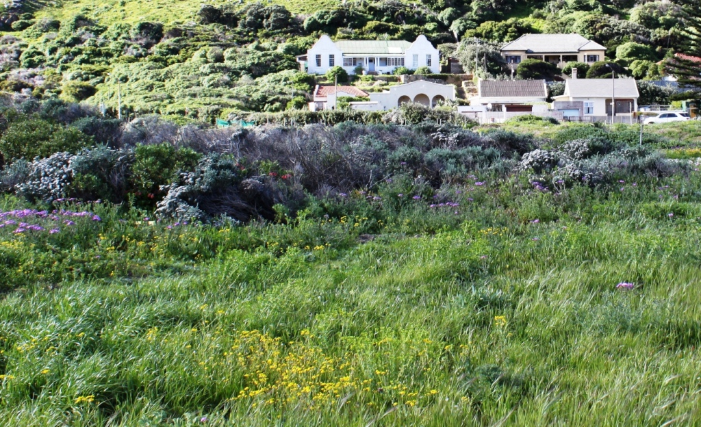 Hangklip sand fynbos - rare vegetation type. Cape Town.